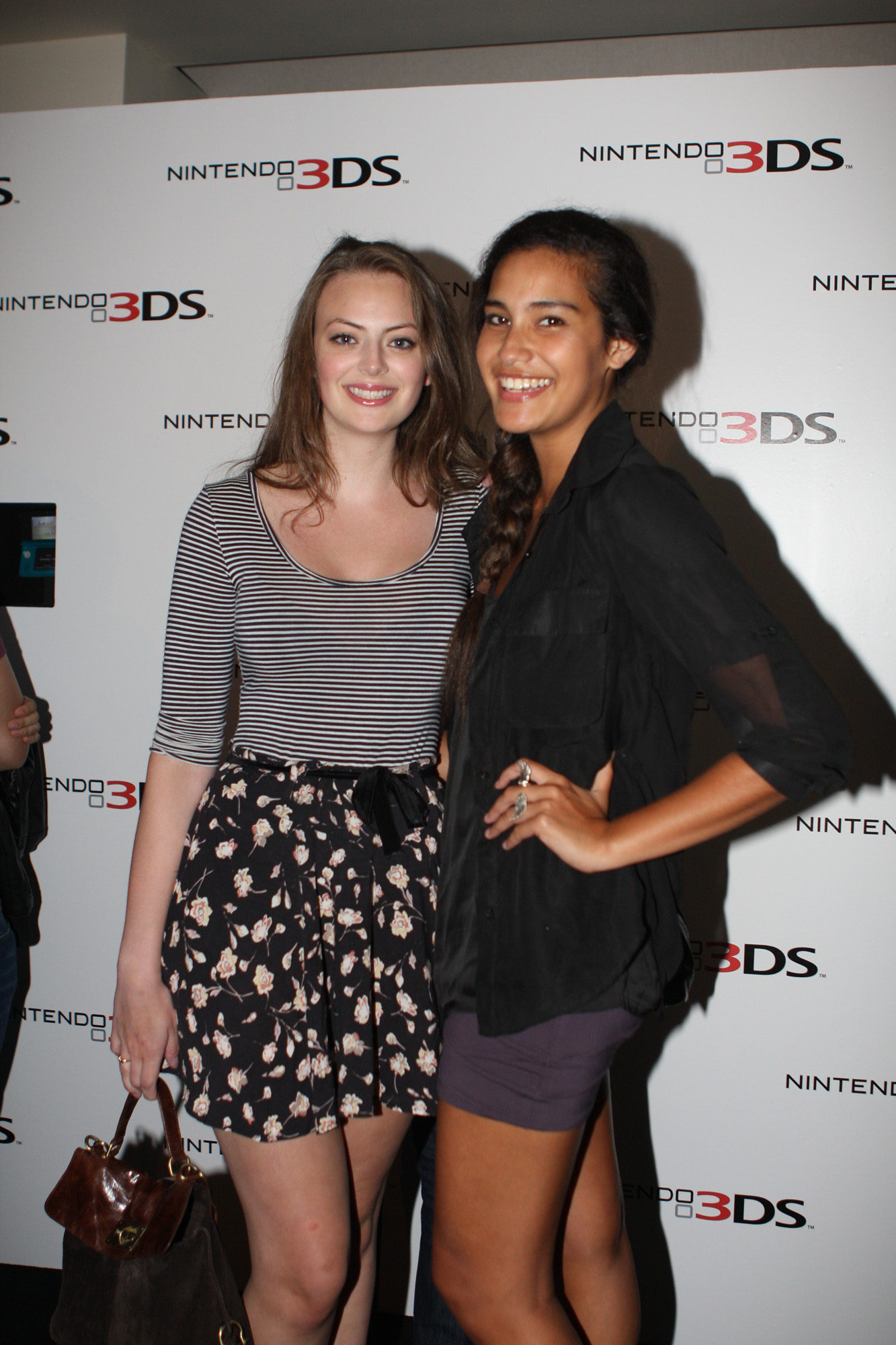 Demelza Reveley (L) and Rebecca Jobson (R) at Nintendo 3DS launch 2011